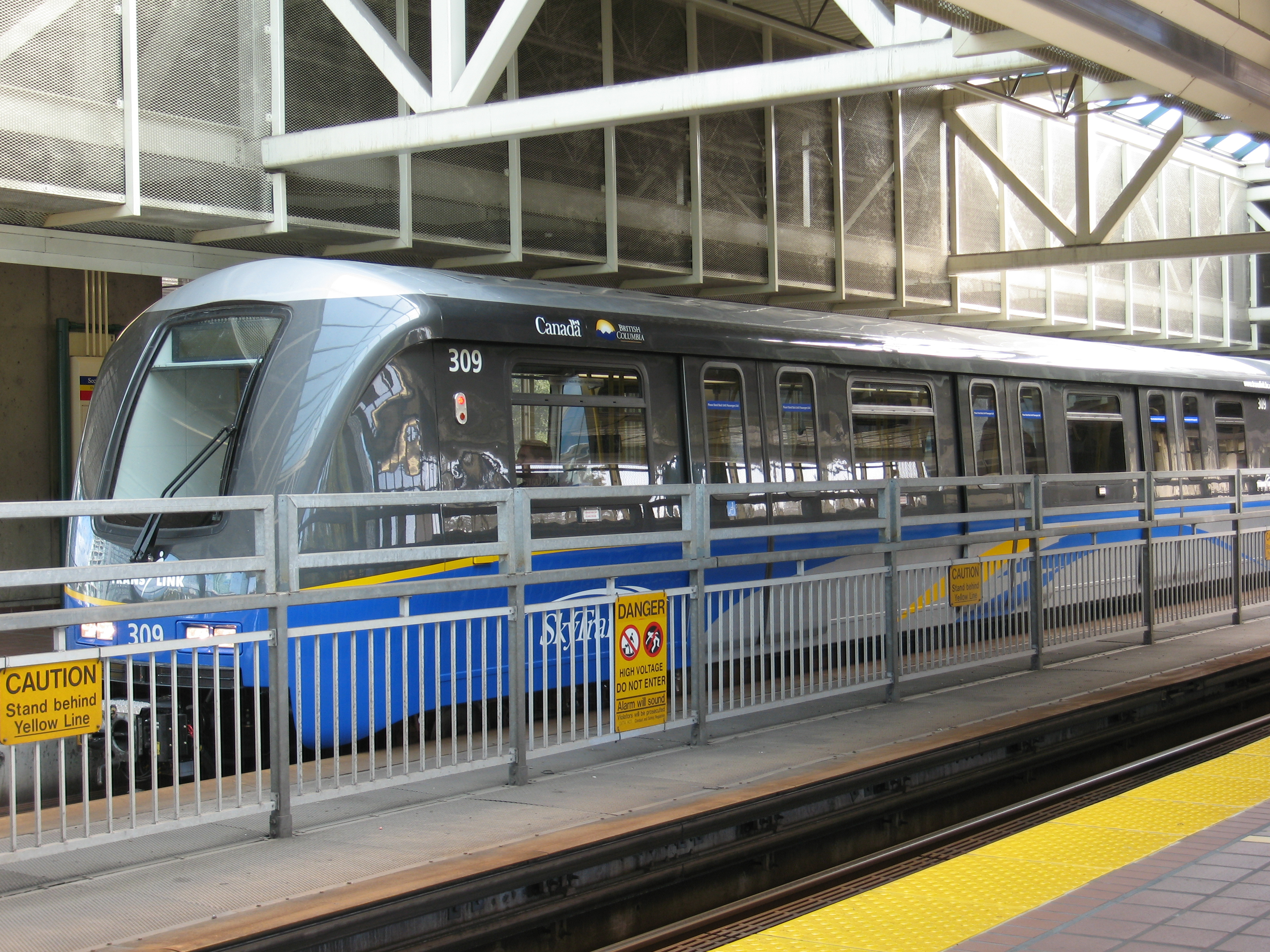 A picture of the new Mark II